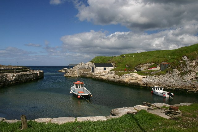 Ballintoy Harbour. Northern Ireland's prettiest harbour...